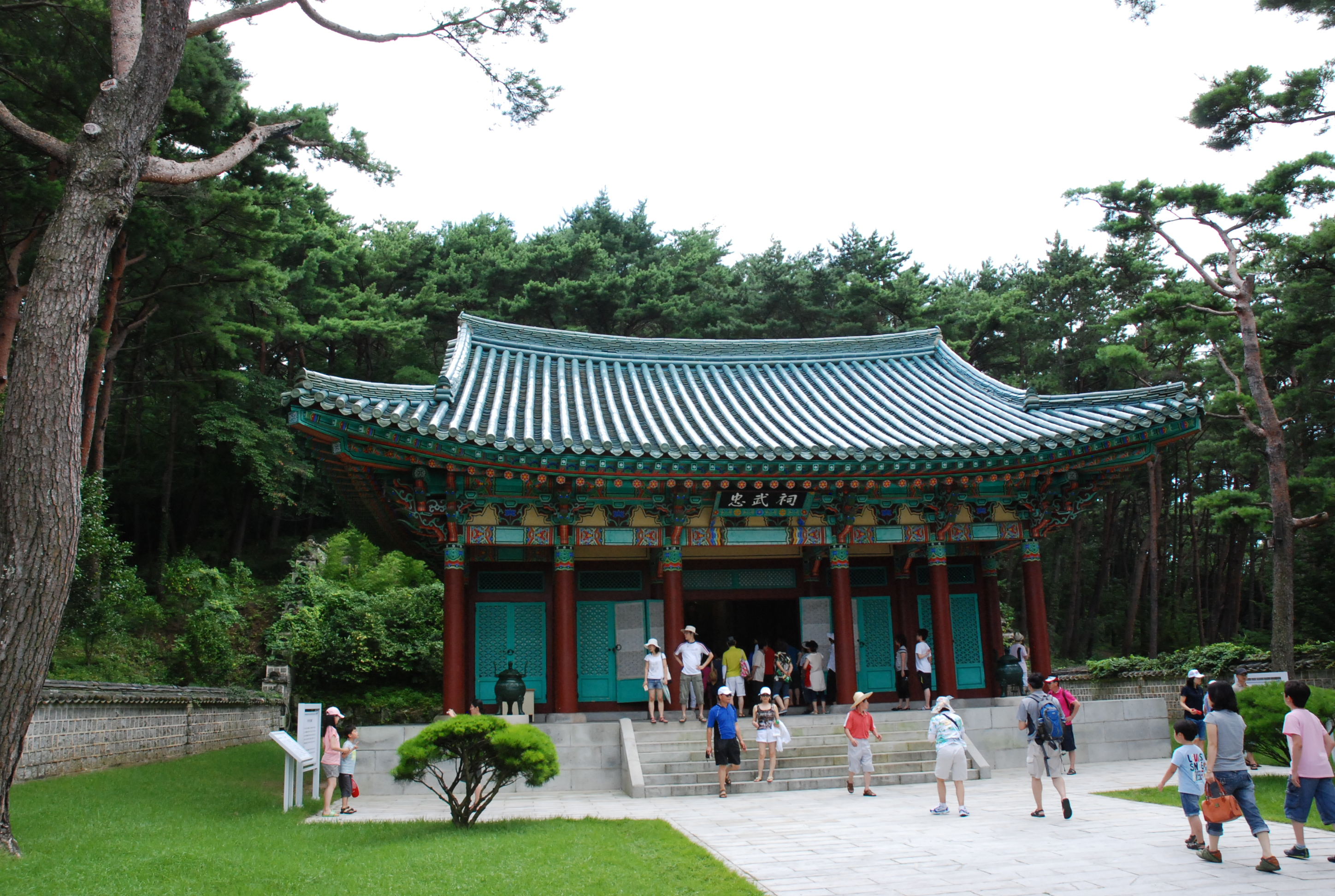 Chungmu Shrine (Chungmusa) built to commemorate Admiral Yi Sun-sin on Hansan Island (Hansando), North Gyeongsang province, South Korea where Admiral Yi squashed the Japanese invasive military with the turtle-shaped ship (Turtle ship) during the Imjin War. The battle is referred to as "Battle of Hansan Island" (Hansan daecheop).